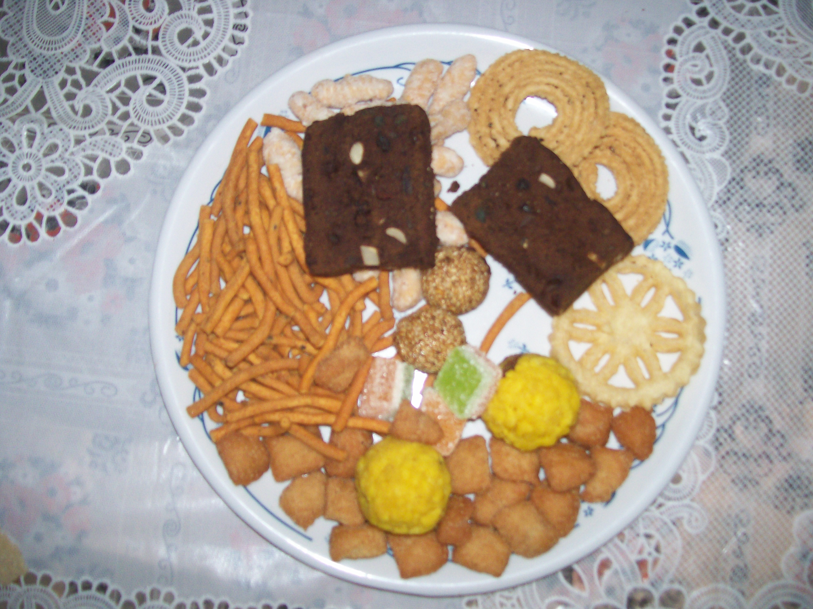 Kuswar is a term often used to mention a set of unique Christmas goodies which are part of the cuisine of the Mangalorean Catholics and Goan Catholics.